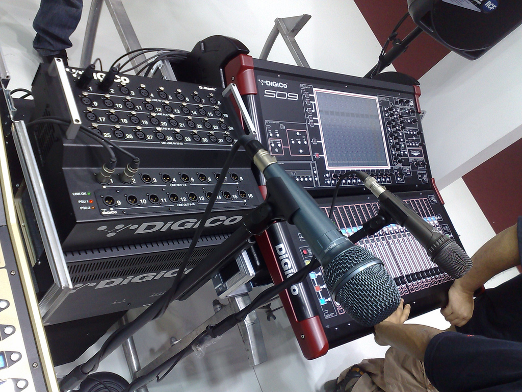 Expomusic 2010 DiGiCo SD9 Live Digital Console With Stealth Digital Processing DiGiCo D-Rack Floor Mount 32in/16out Stage Box for SD9